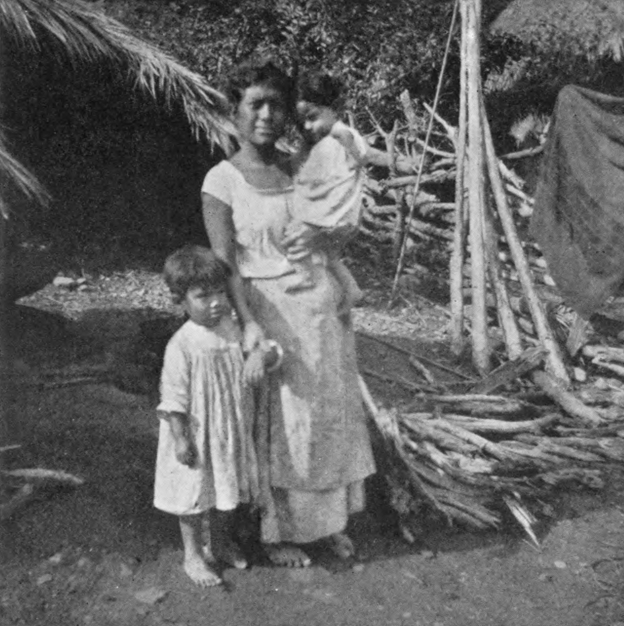 The original caption for this picture in the book from which it came was "Zamba of Mesquititlan". The photograph was located on page 357 of the book. The paragraph directly preceding this picture in the book describes the traveler's journey to the hamlet of Mesquititlan whereupon he came across a "friendly, and rather a pretty, woman" who was "owner of one of the huts". This picture depicts someone who the book author judged to be a zambo i.e. someone of mixed Native American and black African ancestry. (The term "zamba" is the feminine form of the term "zambo".)